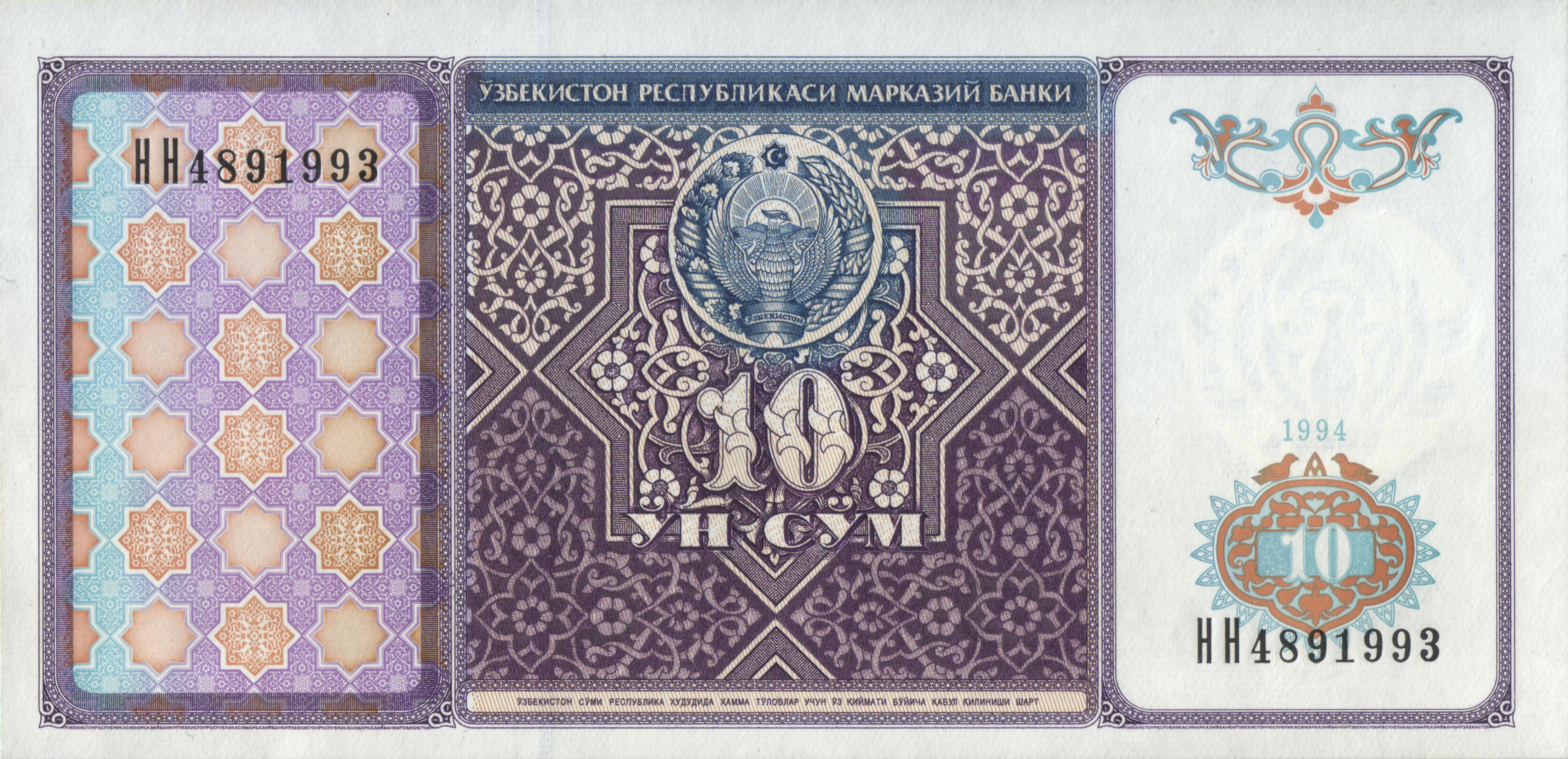 10 soms of Uzbekistan (1994)